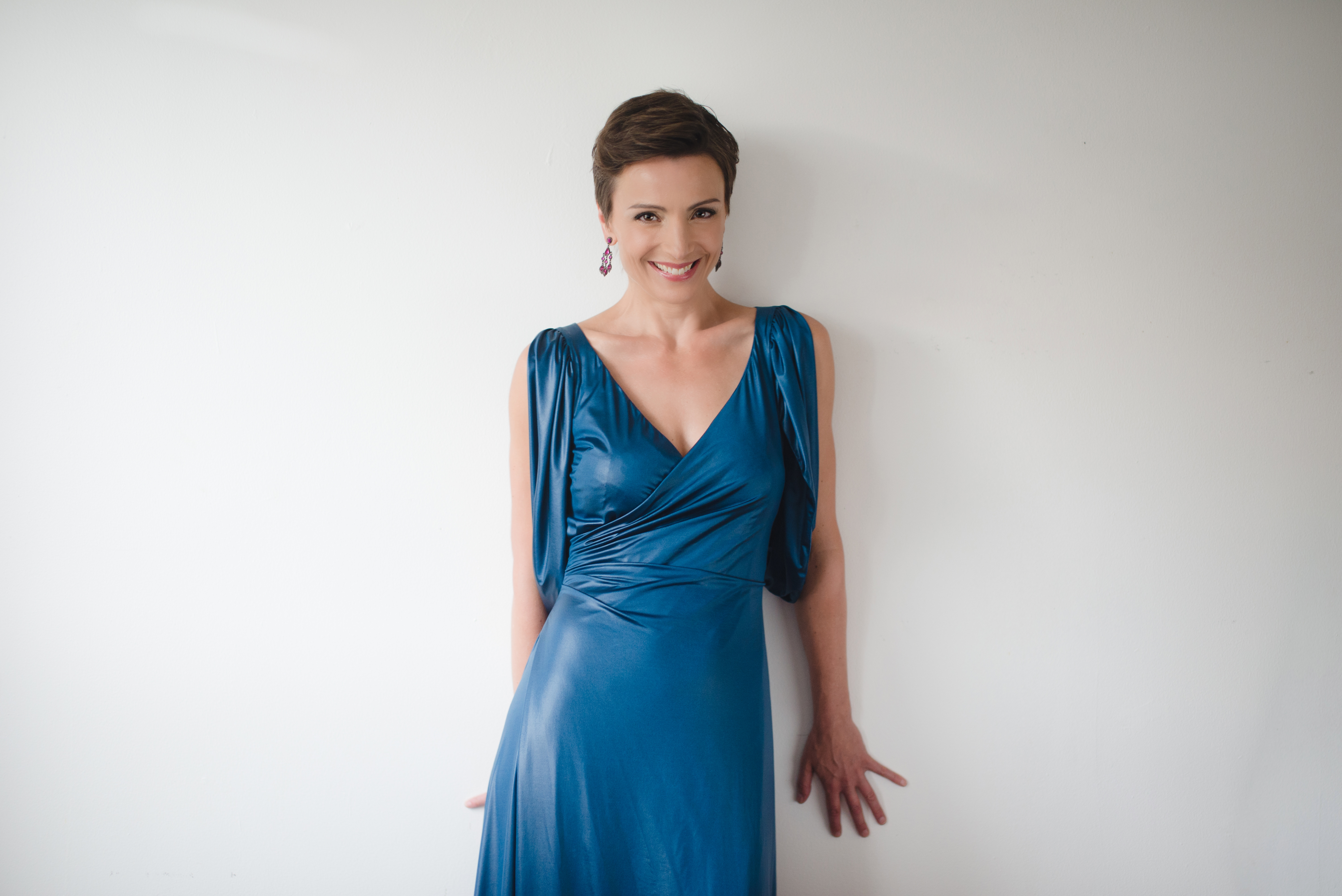 Andrea Ludwig, Mezzo Soprano. Photo by Bo Huang